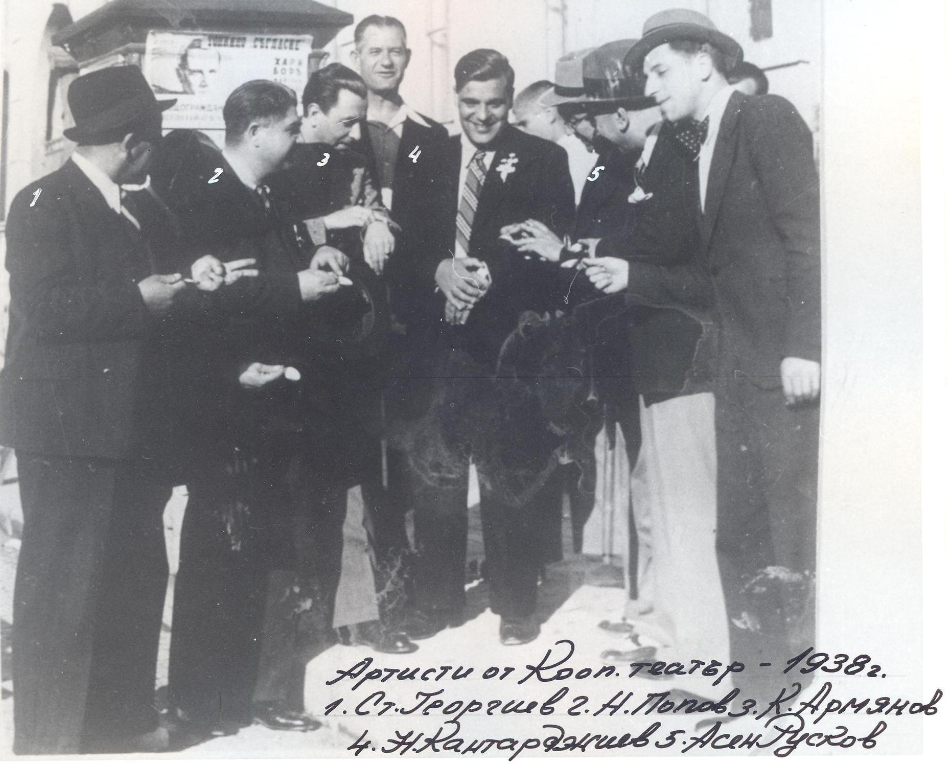 Stefan Georgiev, Nikola Popov, Kosta Armyanov, Nikola Kantardzhiev and Asen Ruskov, 1938.